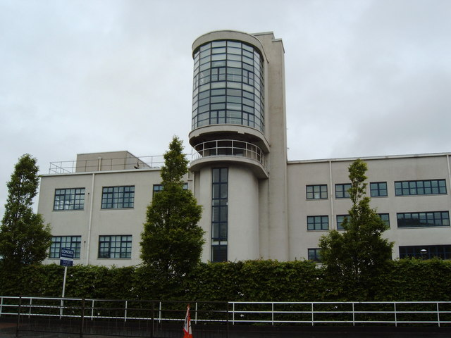 Luma Tower Info extracted from the internet: "The former Luma Lamp Factory on Shieldhall Road, is a famous Glasgow landmark and, indeed, a gateway building in the City, and is included in the Scottish Minister's List of Buildings of Special Architectural or Historic Interest as category 'B' listed. Its distinctive and principal feature is a tall conning tower situated at the south west corner risIng to a height of 84 ft. The building was completed in 1938."